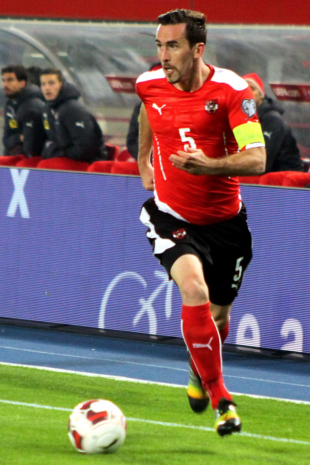 en:UEFA Euro 2016 qualifying |UEFA Euro 2016 qualifying : Austria vs. Russia (1:0 / 0:0) at 2014-11-15 in the Ernst-Happel-Stadion in Vienna. – The photo shows en: (Austria / Rusiia).